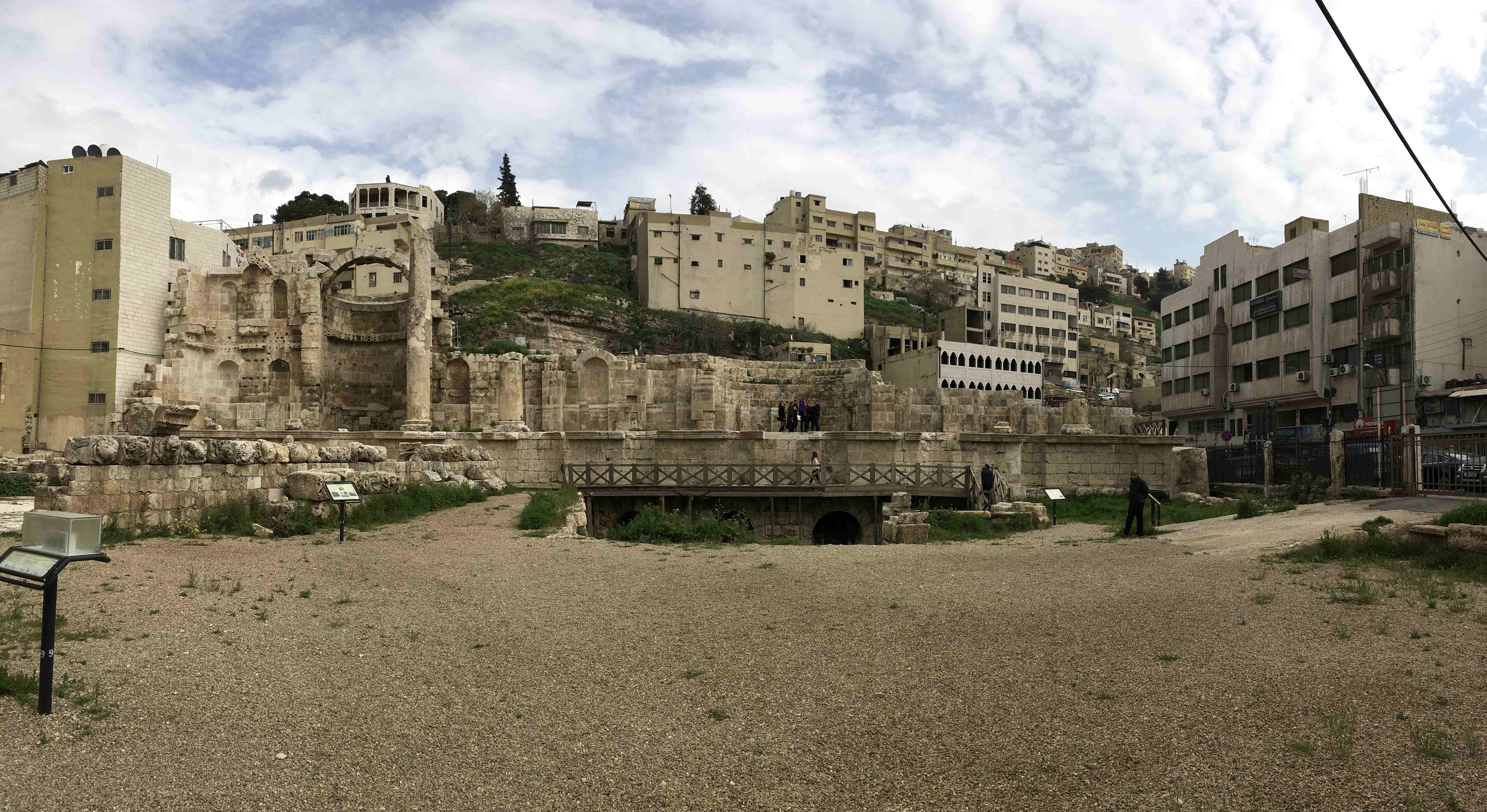 Amman Nimphaeum front view